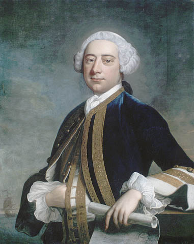 Captain Philip Durell